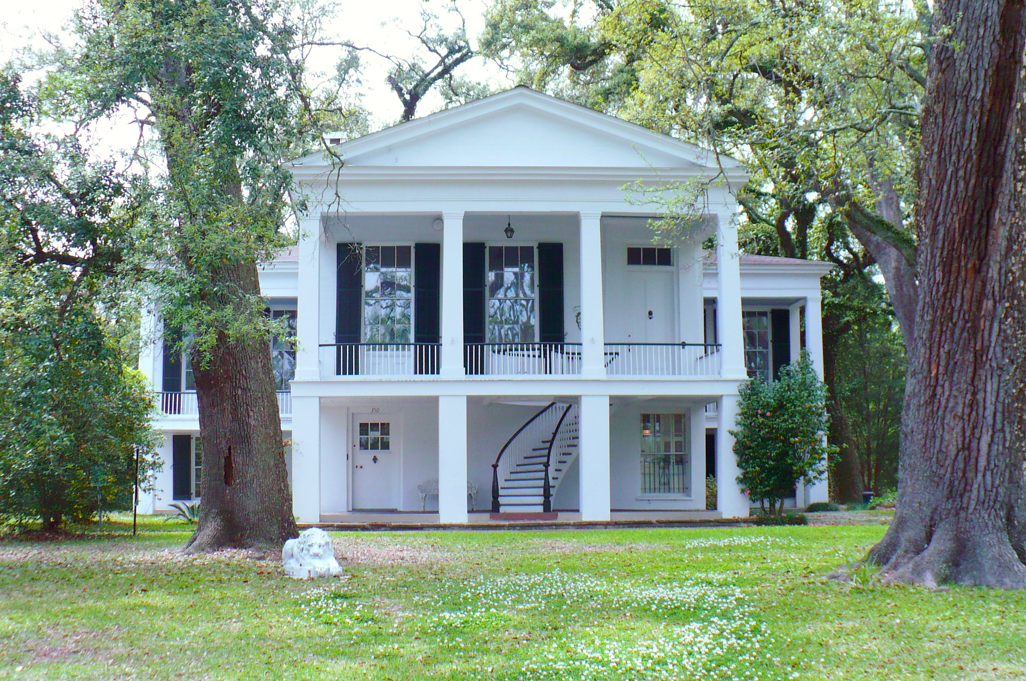 Oakleigh House, the namesake of the Oakleigh Garden historic district in Mobile, Alabama